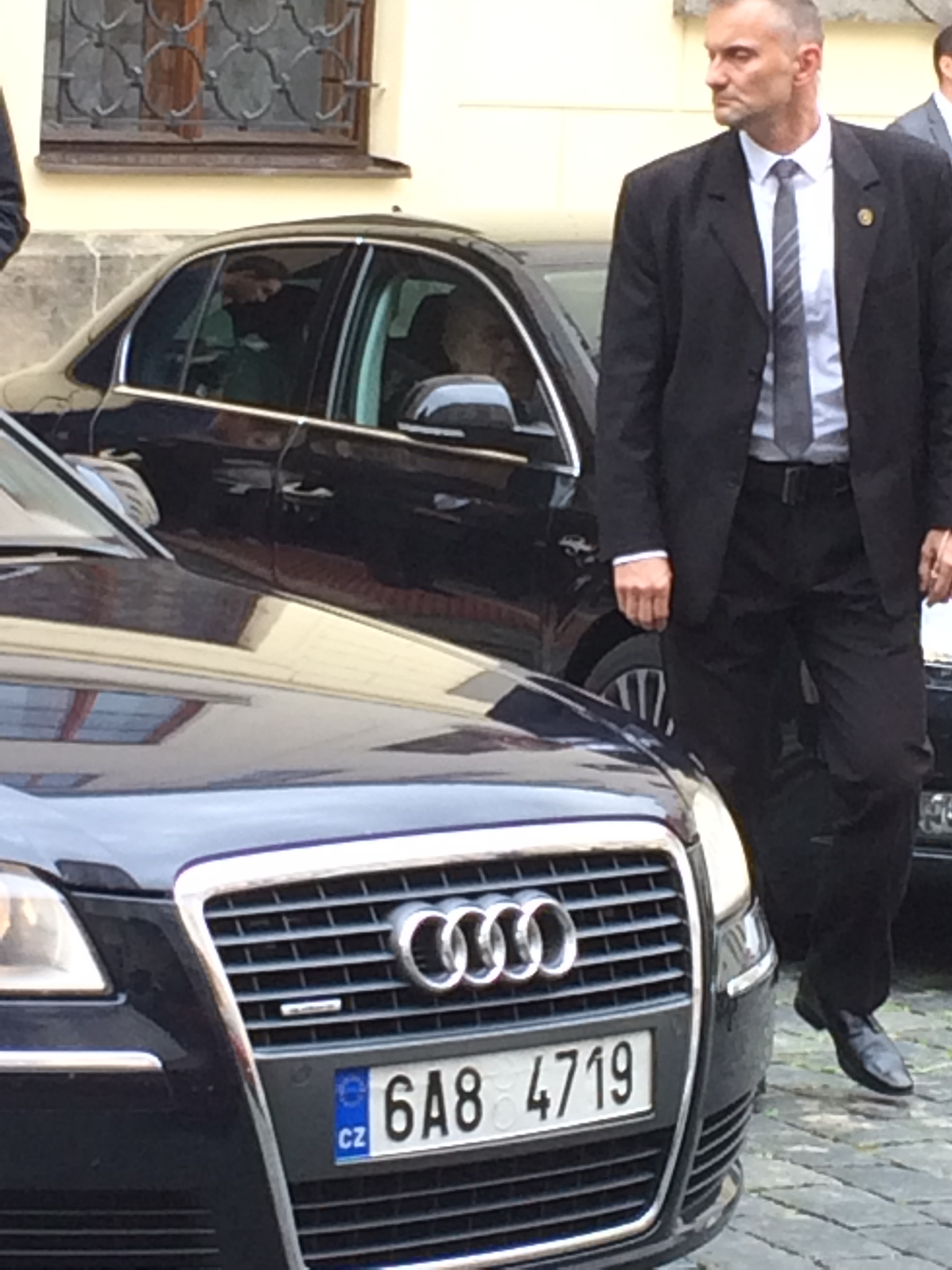 Bodyguard protects Czech President Miloš Zeman.